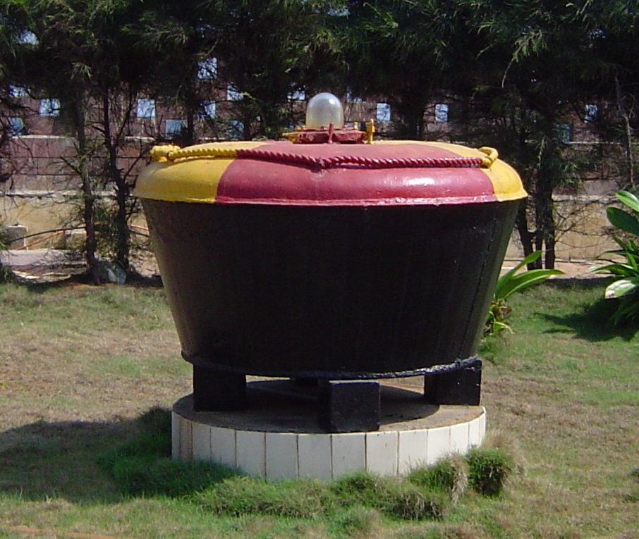 Indicator buoy from Indian submarine in Visakhapatham museum